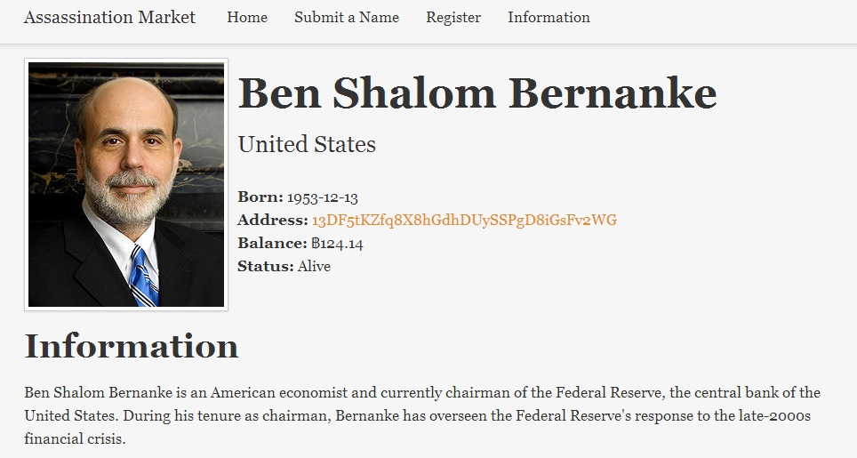 Page of Ben Bernanke on the Assassination market.